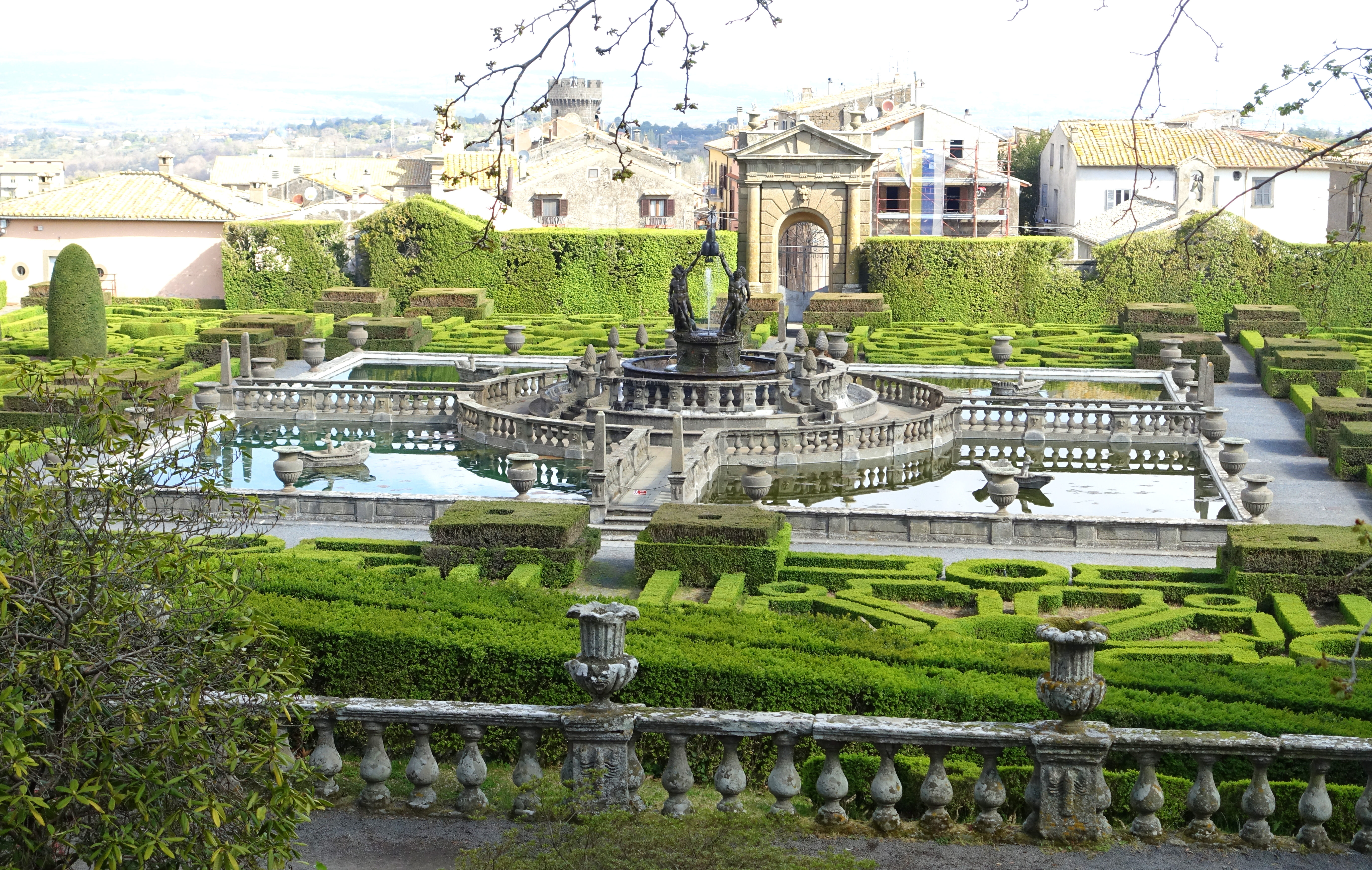 Fontana dei Mori - Villa Lante, Bagnaia, Italy.